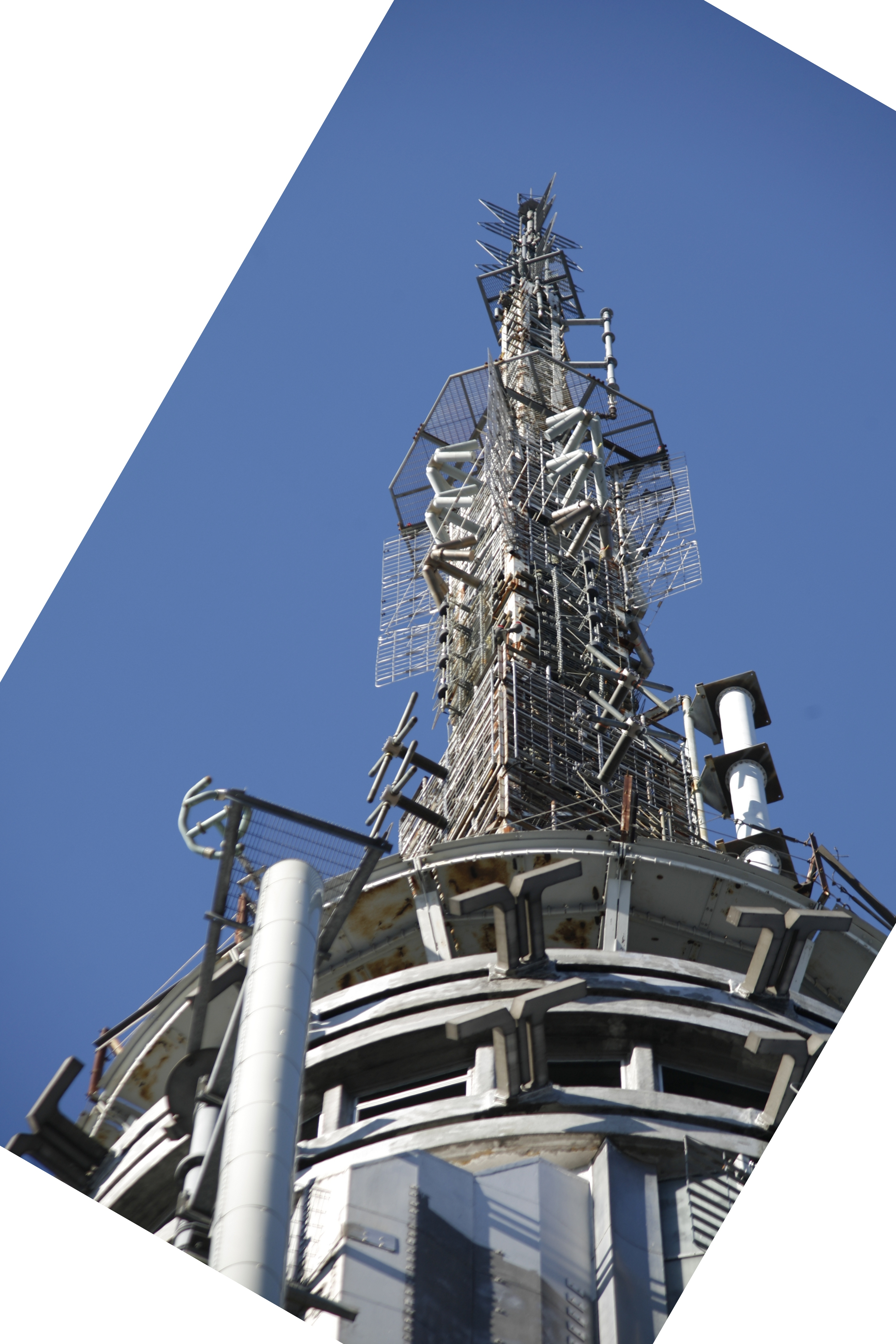 Antenna town on top of the Empire State Building, with broadcasting antennas for a variety of FM and television stations. Atop is an ERI master antenna. The story of its installation is Stations radiating from there include WQXR/105.9, WNYC-FM/93.9, WLTW/106.7, WSKQ/97/9, WXNY/96.3, WWFS/102.7, WRKS/98.7, WBAI/99.5, WBLS/107.5, WWPR/105.1, WHTZ/100.3, WXRK/92.3, WAXQ/104.3 and WKTU/103.5. All are 6kw horizontal and vertical except for WBAI (4.3), WBLS (4.2), WQXR (.61) and WRXP (6.2). It appears from here that WRXP uses the gold one-bay while the rest use the white two-bay above. Next down is a WPLJ/95.5 auxiliary antenna (6.6kw) and then three stations sharing a two-bay panel antenna: WQHT/97.1, WPLJ/95.5 and WCBS-FM/101.1. All three are 6.7kw. The old Alford can be seen below. At the level between the two FM systems is the new master antenna for New York's three TV stations still using the VHF band: WABC-DT on Channel 7, WPIX-DT on Channel 11 and WNET-DT on Channel 13. Unlike most TV stations after the digital transition of 2009, these stations still broadcast on their original analog channels.